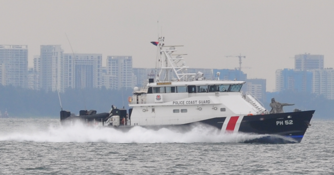 Police Coast Guard (Singapore) Coastal Patrol Craft Displacement: 140 tonnes Length: 35 metres Speed: 35 knots (65 km/h)